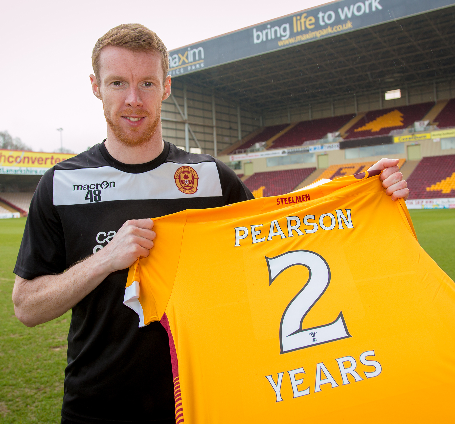 Stephen Pearson at Fir Park after signing a new two-year contract with Motherwell FC.